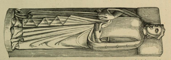 Image of the tomb of Berenguela of Barcelona in the Royal Pantheon of Compostela Cathedral.